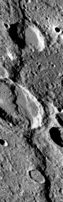 Planetary Journal Original Caption Released with Image: A limping Mariner 10 spacecraft was coaxed into a third and final encounter with Mercury in March of 1975. Due to several problems with the aging spacecraft, only ~450 useful images of the planet were acquired, though many are at significantly higher resolution than previous encounters. In this high resolution image (FDS 528884) the sun is low to the horizon thus enhancing topographic features with prominent shadows. As can be seen here, the surface of Mercury is heavily cratered similar to the Moon. The prominent scarp that snakes up the image was named Discovery Rupes. Like Hero Rupes, this feature is thought to have been formed as the planet compressed, possibly caused by cooling of the planet. The vertical (tall narrow) format of the third encounter images resulted from problems with the tape recorder and transmitter on the spacecraft. Only the middle quarter of each frame could be sent back. The Mariner 10 mission, managed by the Jet Propulsion Laboratory for NASA's Office of Space Science, explored Venus in February 1974 on the way to three encounters with Mercury-in March and September 1974 and in March 1975. The spacecraft took more than 7,000 photos of Mercury, Venus, the Earth and the Moon. Image Credit: NASA/JPL/Northwestern University